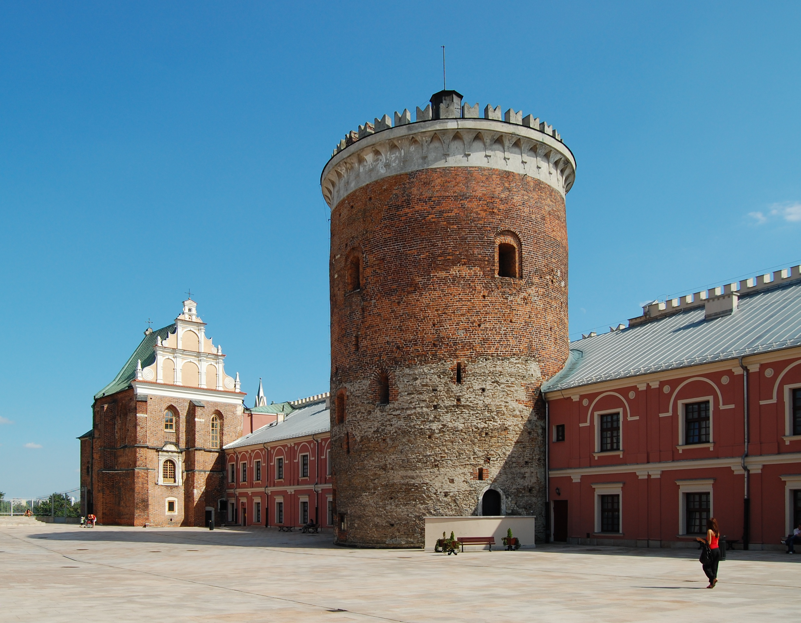 Castle in Lublin, Poland.